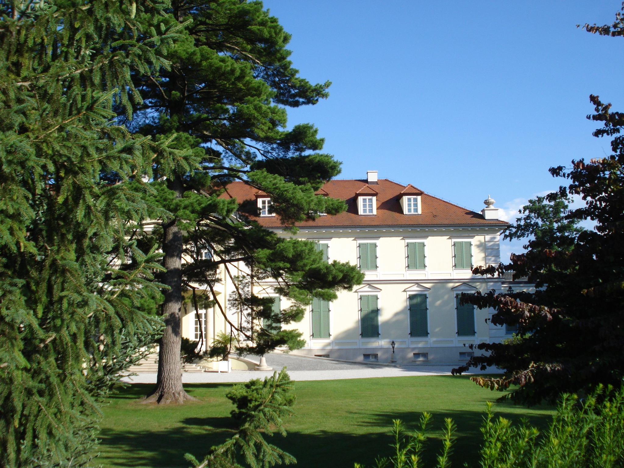 Jalkovec Castle near Varaždin, Croatia (north-northwest view), built in 1911 by the nobleman Stjepan Leitner